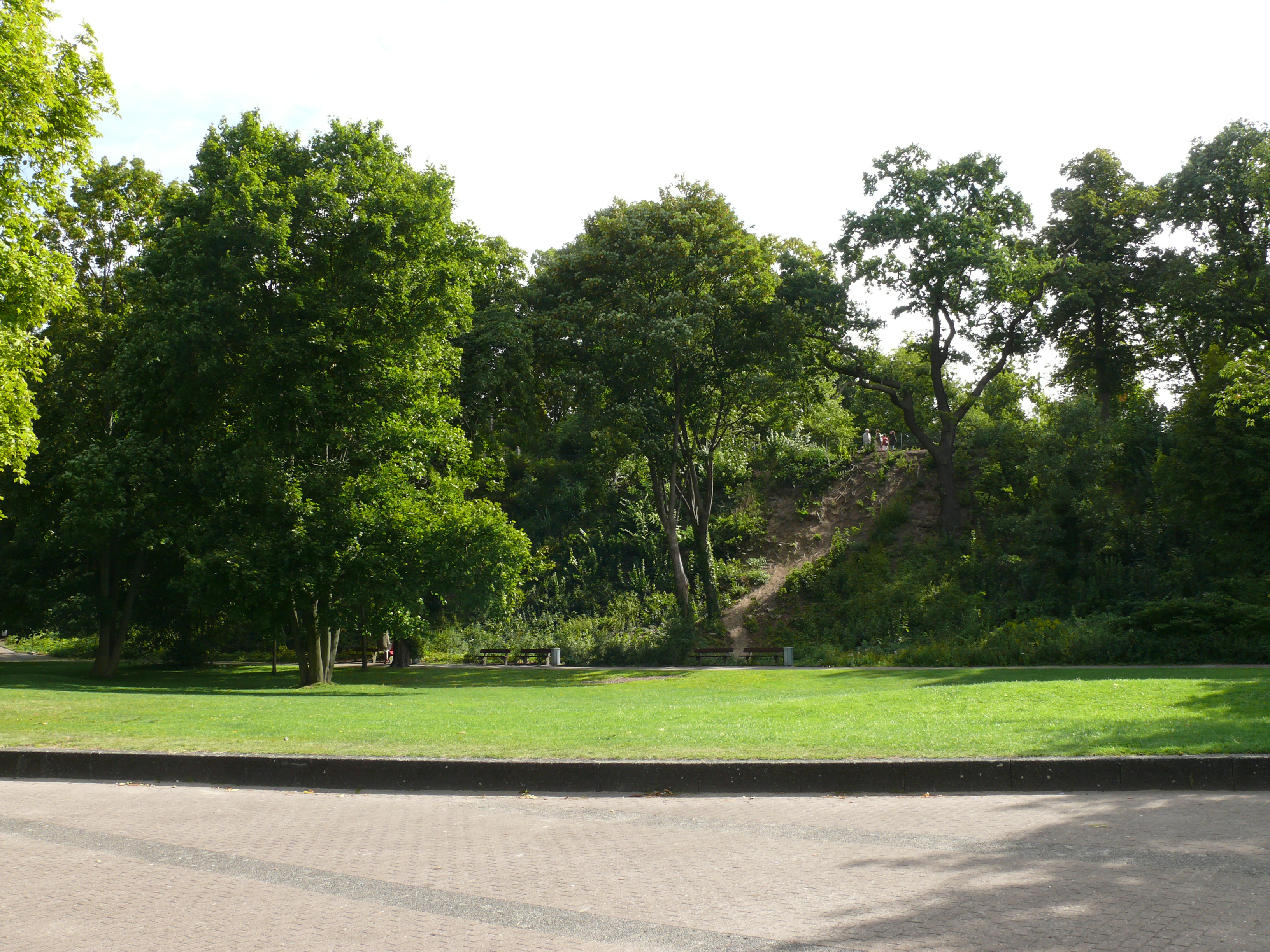 Berlin-Wannsee Ronnebypromenade